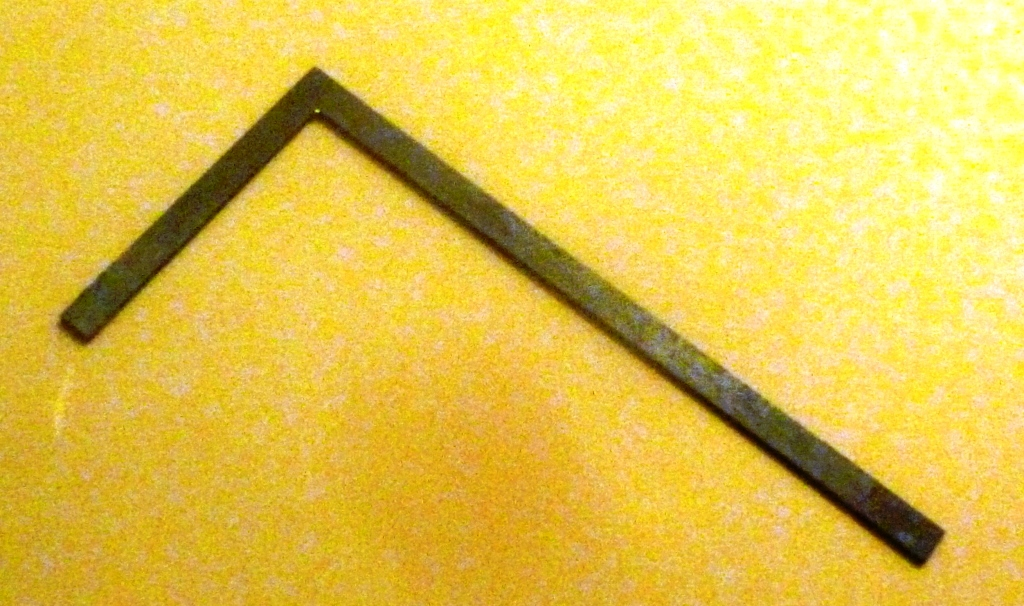 I took this photo in the Shaanxi History Museum, Xi'an which allowed photos so long as flash was not used